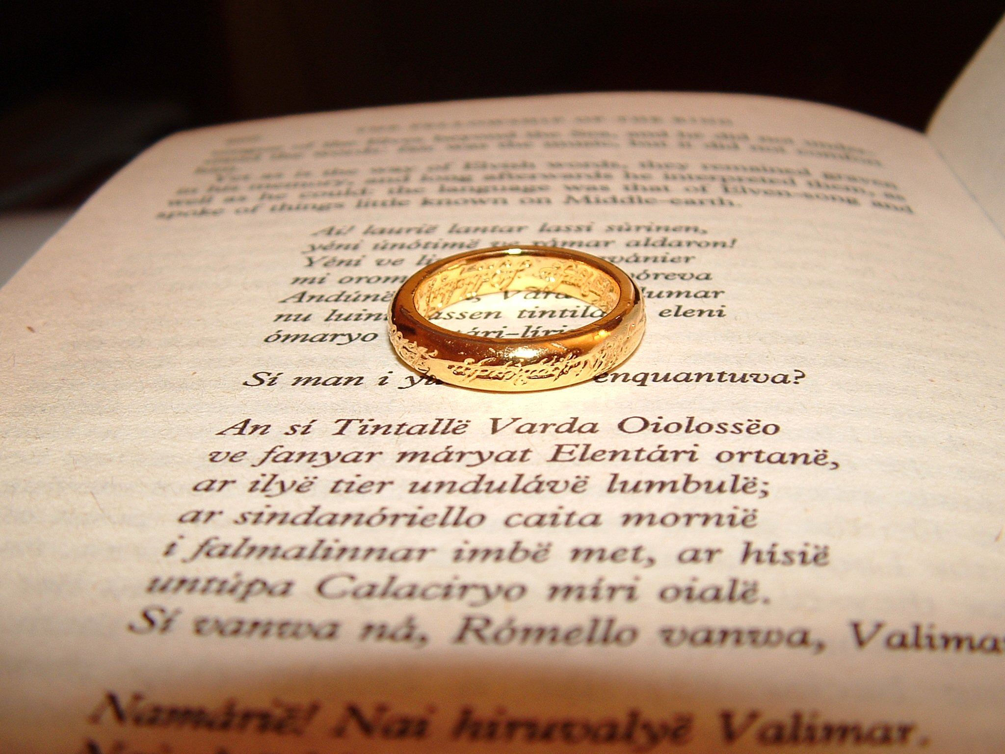 The One Ring shown on a page from J.R.R. Tolkien: The Lord of the Rings, part I The Fellowship of the Ring, with the text of the Elvish song Galadriel's Lament from Namárië, also called Galadriel's Lament (consulted on 10 July 2020): Altariello nainië Lóriendessë (Quenya for "Galadriel's lament in Lórien") Ai! laurië lantar lassi súrinen, yéni unótimë ve rámar aldaron! Yéni ve lintë yuldar avánier mi oromardi lisse-miruvóreva Andúnë pella, Vardo tellumar nu luini yassen tintilar i eleni ómaryo airetári-lírinen. Sí man i yulma nin enquantuva? An sí Tintallë Varda Oiolossëo ve fanyar máryat Elentári ortanë, ar ilyë tier undulávë lumbulë; ar sindanóriello caita mornië i falmalinnar imbë met, ar hísië untúpa Calaciryo míri oialë. Sí vanwa ná, Rómello vanwa, Valimar! Namárië! Nai hiruvalyë Valimar. Nai elyë hiruva. Namárië! Translation Ah! like gold fall the leaves in the wind, long years numberless as the wings of trees! The years have passed like swift draughts of the sweet mead in lofty halls beyond the West, beneath the blue vaults of Varda wherein the stars tremble in the song of her voice, holy and queenly. Who now shall refill the cup for me? For now the Kindler, Varda, the Queen of the Stars, from Mount Everwhite has uplifted her hands like clouds, and all paths are drowned deep in shadow; and out of a grey country darkness lies on the foaming waves between us, and mist covers the jewels of Calacirya for ever. Now lost, lost to those from the East is Valimar! Farewell! Maybe thou shalt find Valimar. Maybe even thou shalt find it. Farewell!